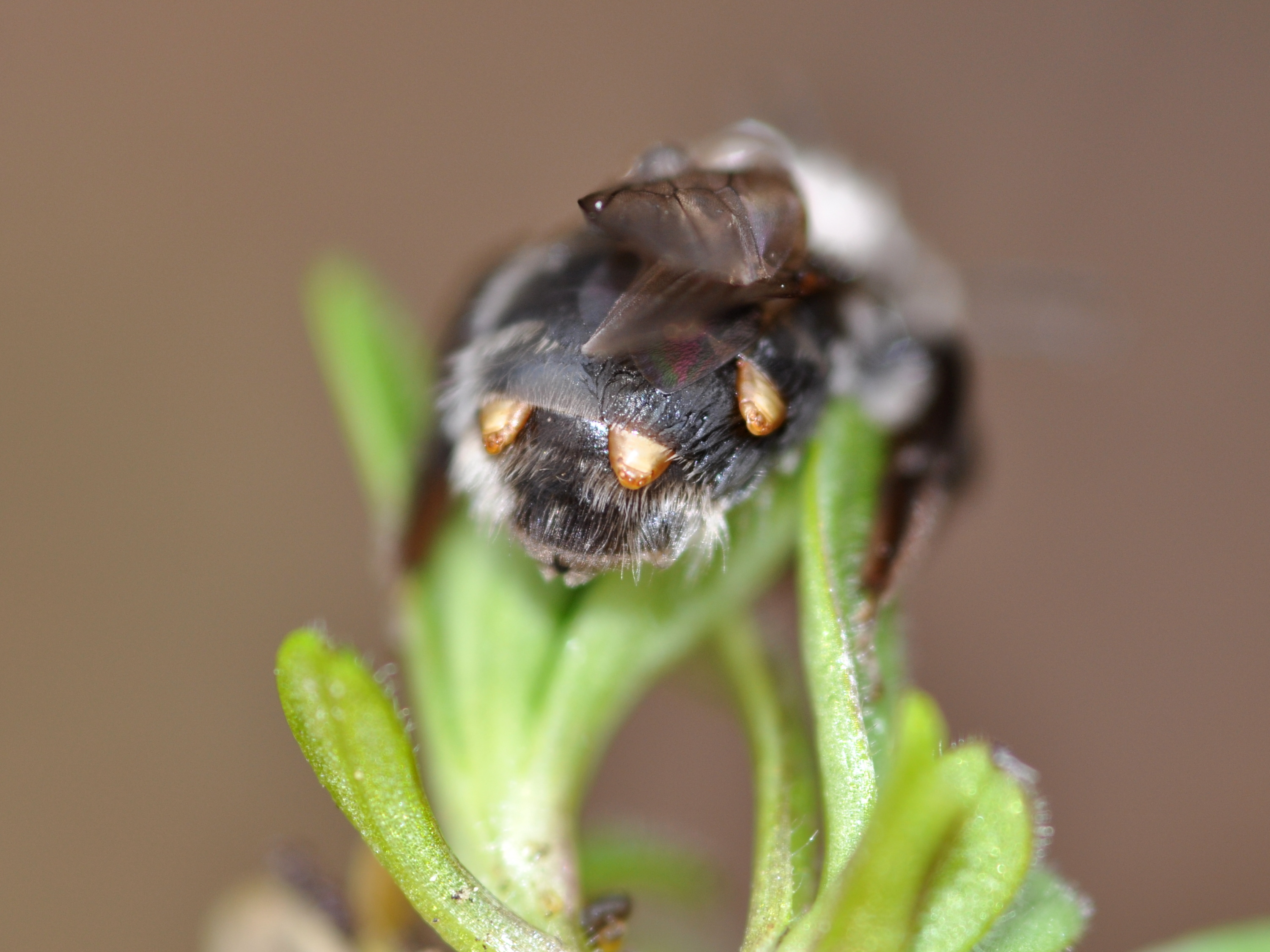 Andrena vaga female infested with three female Stylops melittae in Bahrenfeld, Hamburg.